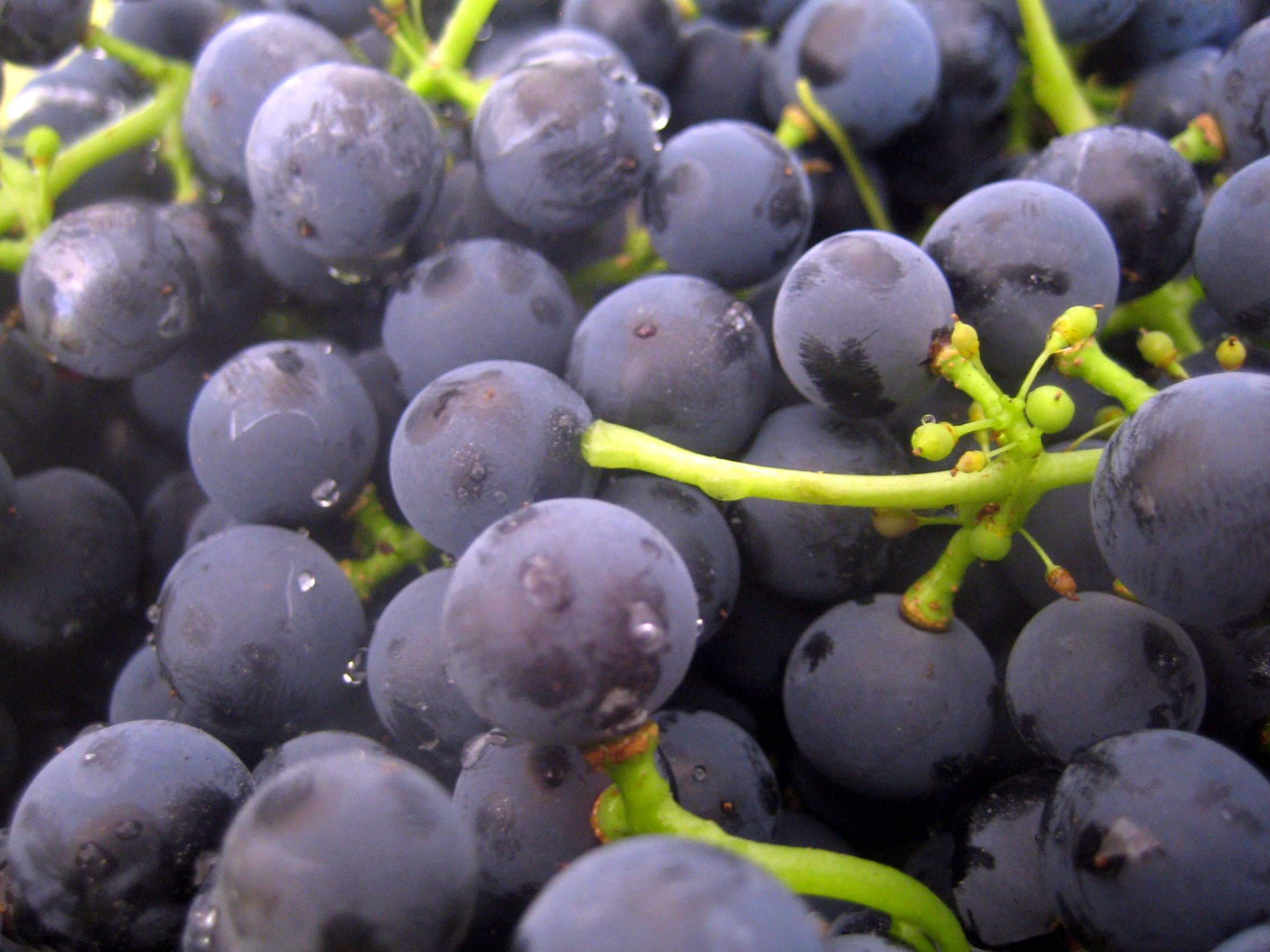 Please note: the white dusty coating of the grapes consists of epicuticular wax (or bloom) and is neither yeast nor another fungus. Credit: shareski on Flickr